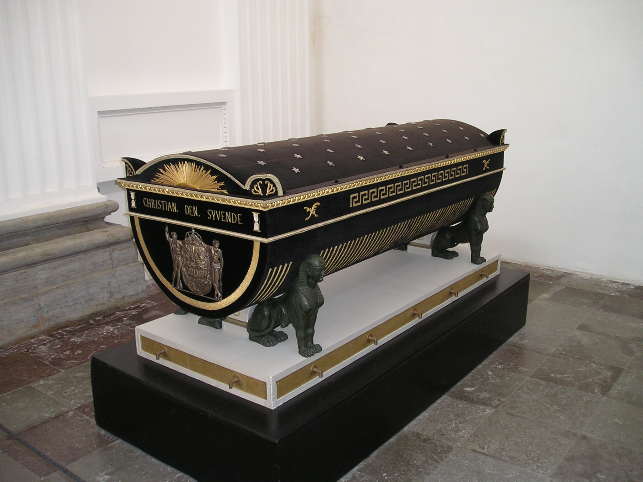 Coffin of King Christian VII. of Danmark, Roskilde Catherdral